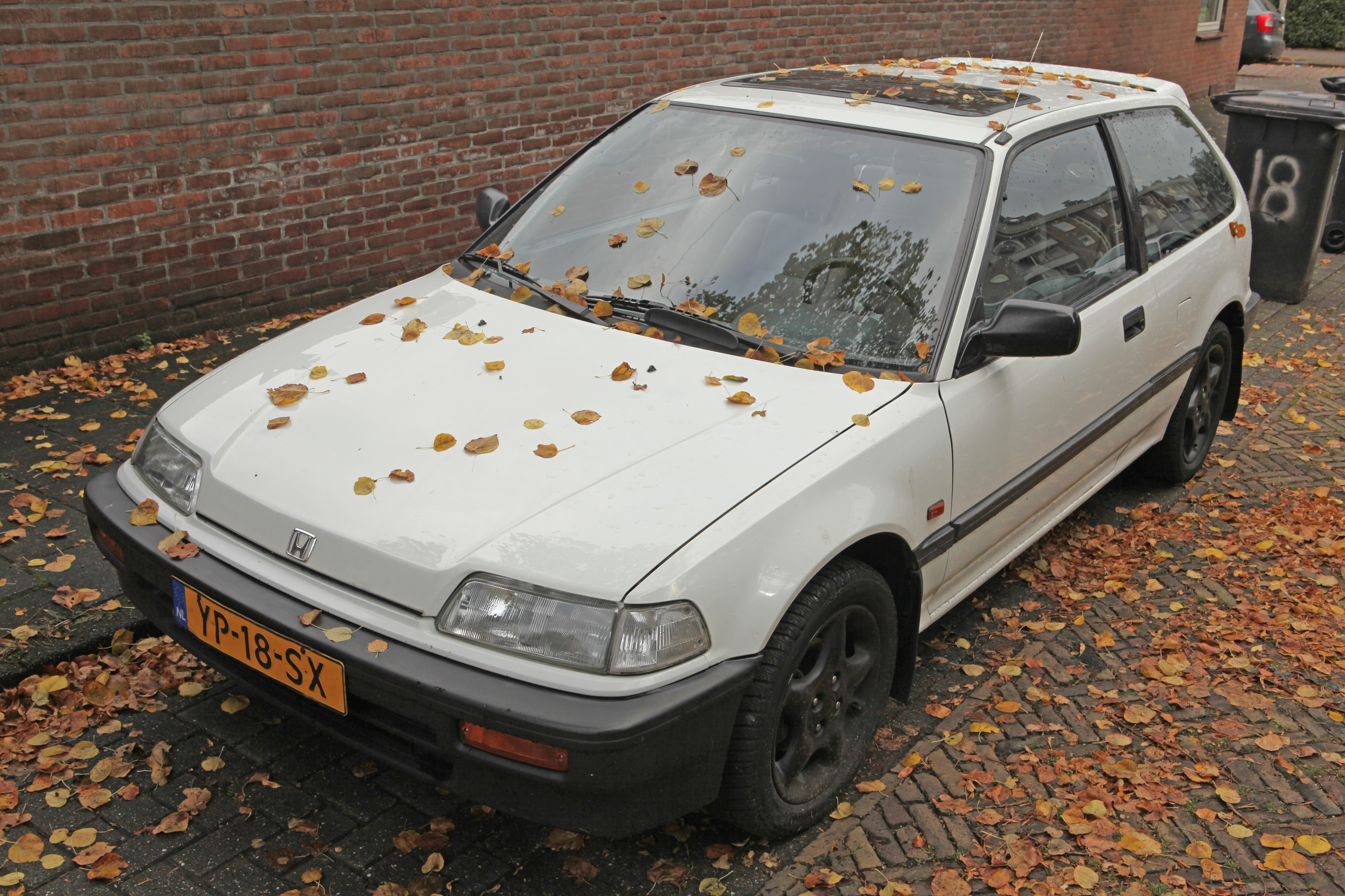 1990 Honda Civic 3 door 1.5I